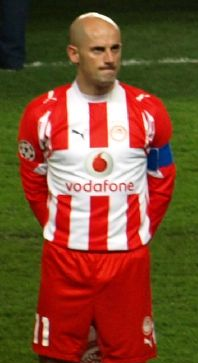 Predrag Đorđević, Chelsea (3) v (0) Olympiakos